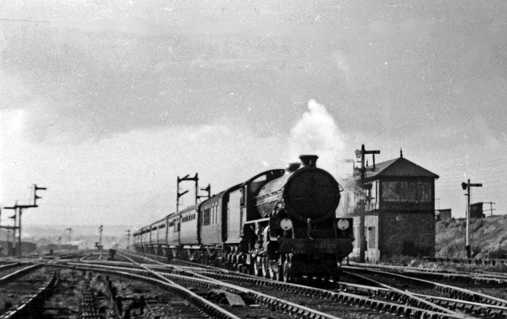 1948 Locomotive Exchanges: ex-LNE B1 4-6-0 on Up Manchester express at Cricklewood. View NW, towards Bedford and the North; ex-Midland London St Pancras - Leicester and the North Main Line. In the trials of Mixed Traffic locomotives, B1 No. 61251 'Oliver Bury' is passing Brent Sidings and Cricklewood Junction Box on a Manchester Central - Derby - St Pancras express.